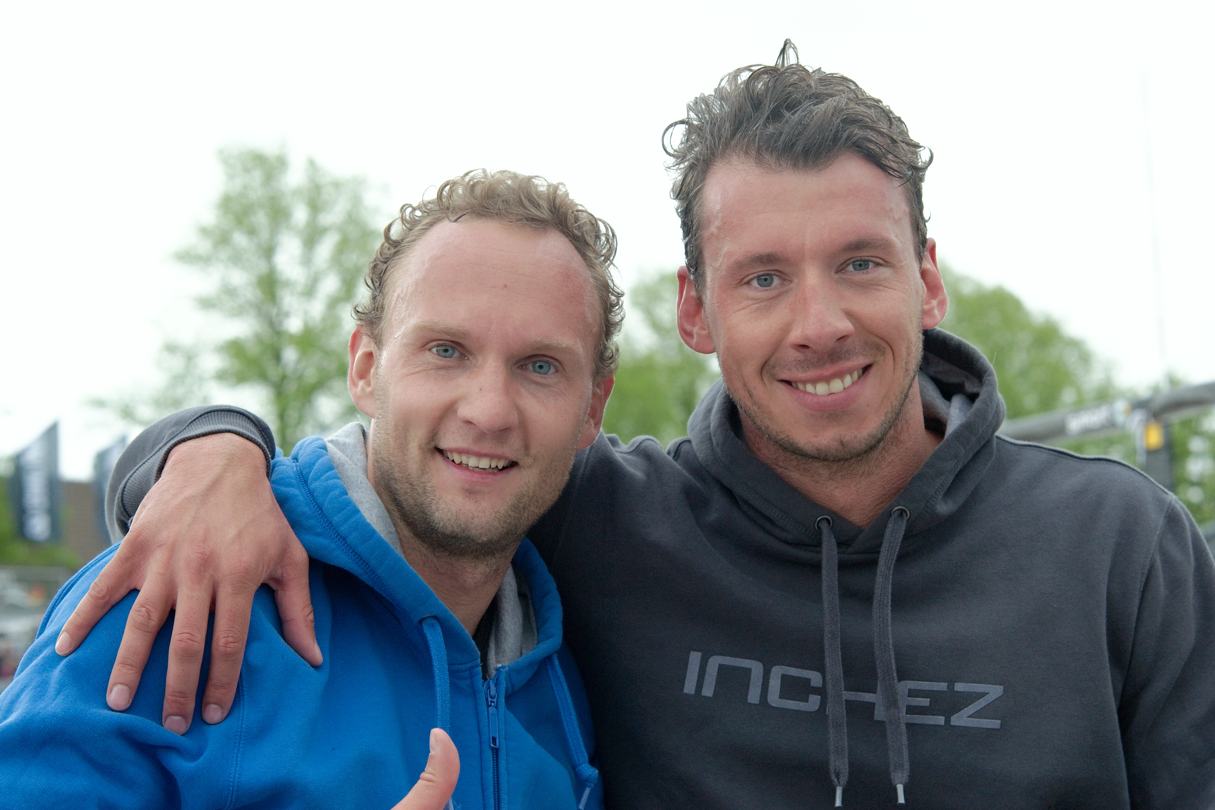 The German beach volleyball players Marcus Popp (left) und Björn Andrae (right) at the Smart Beach Tour tournament in Münster 2015.